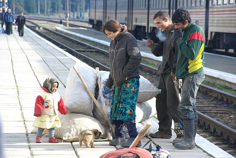 Ukrainian Gypsies at the Sianky Railway Station in Lviv Oblast of Ukraine.